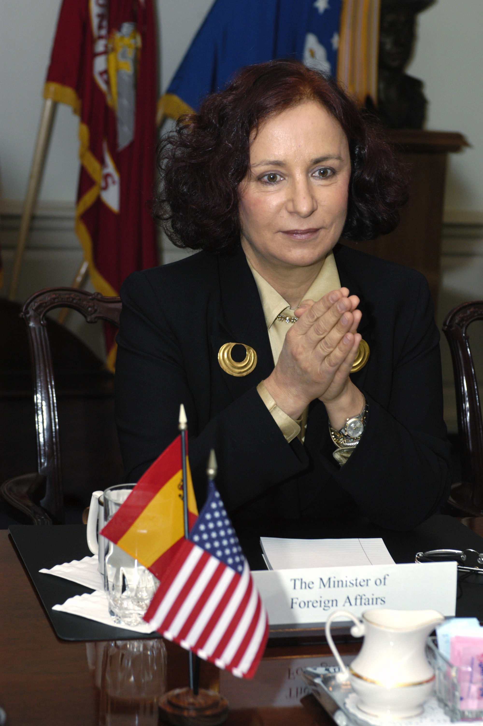 Spain's Minister of Foreign Affairs Ana Palacio meets with Secretary of Defense Donald H. Rumsfeld in the Pentagon on Jan. 8, 2004. The two leaders are meeting to discuss defense issues of mutual interest.